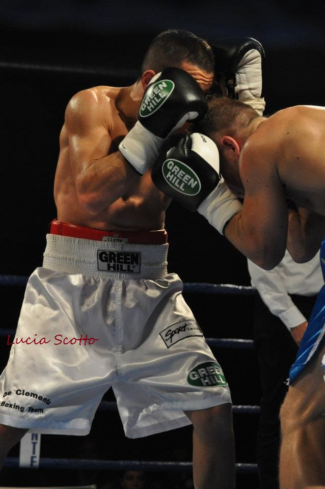 davide dieli pugile professionista